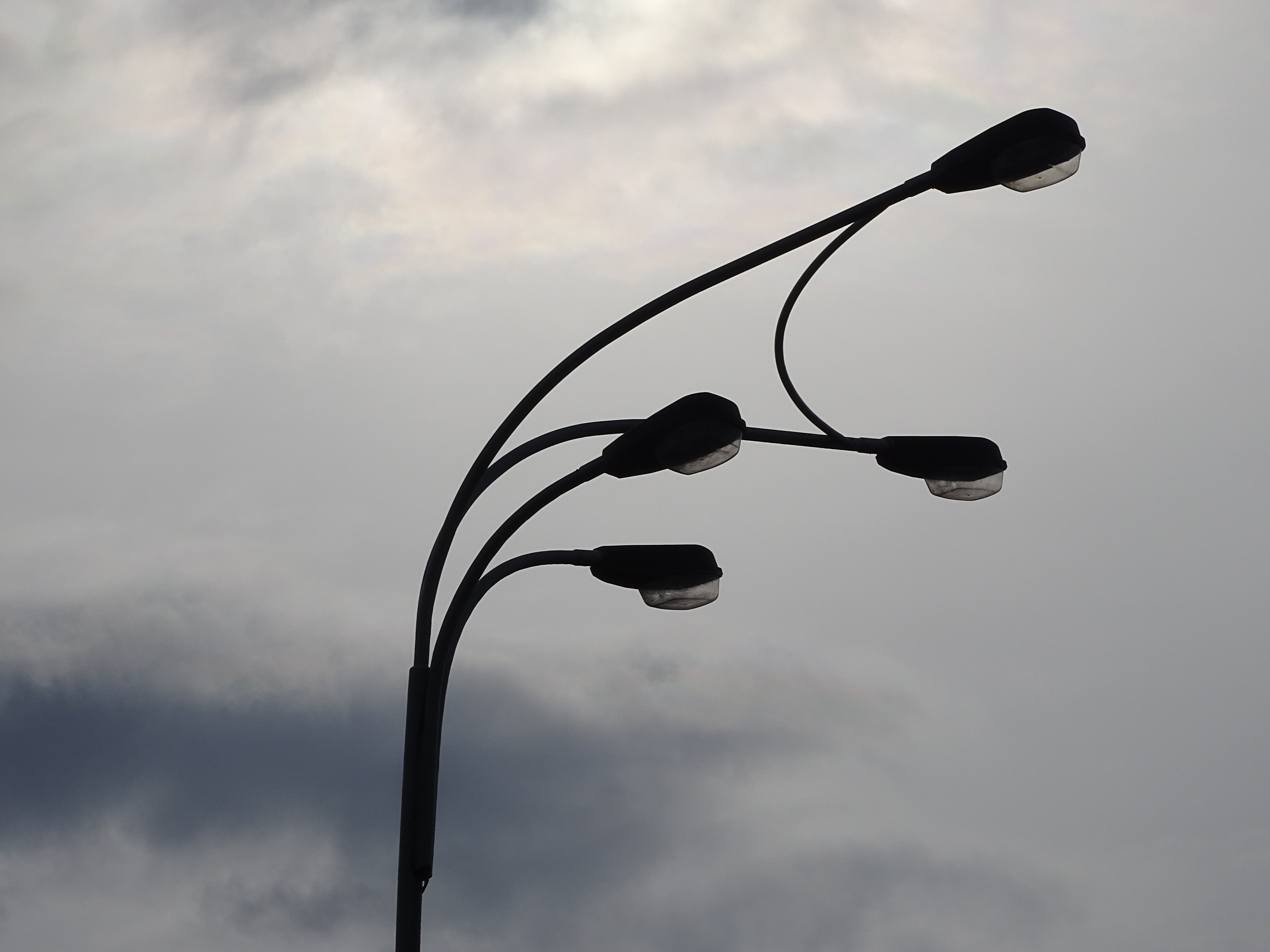 Prague-Holešovice, Czech Republic. Hlávkův most, a streetlamp.